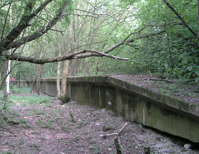 Disused railway platforms at Christs Hospital station